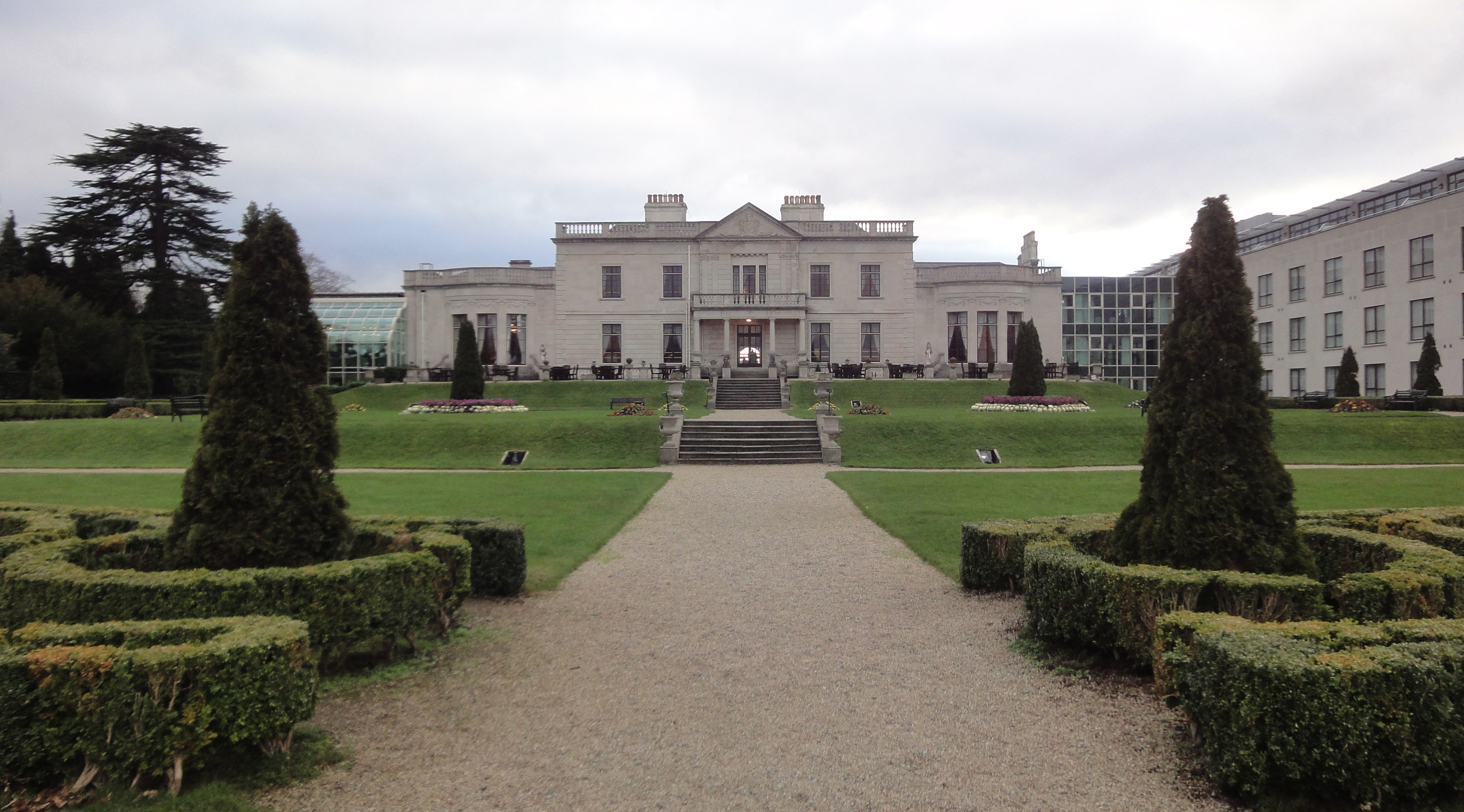 The rear gardens of St. Helen's, Booterstown, Dublin, Ireland